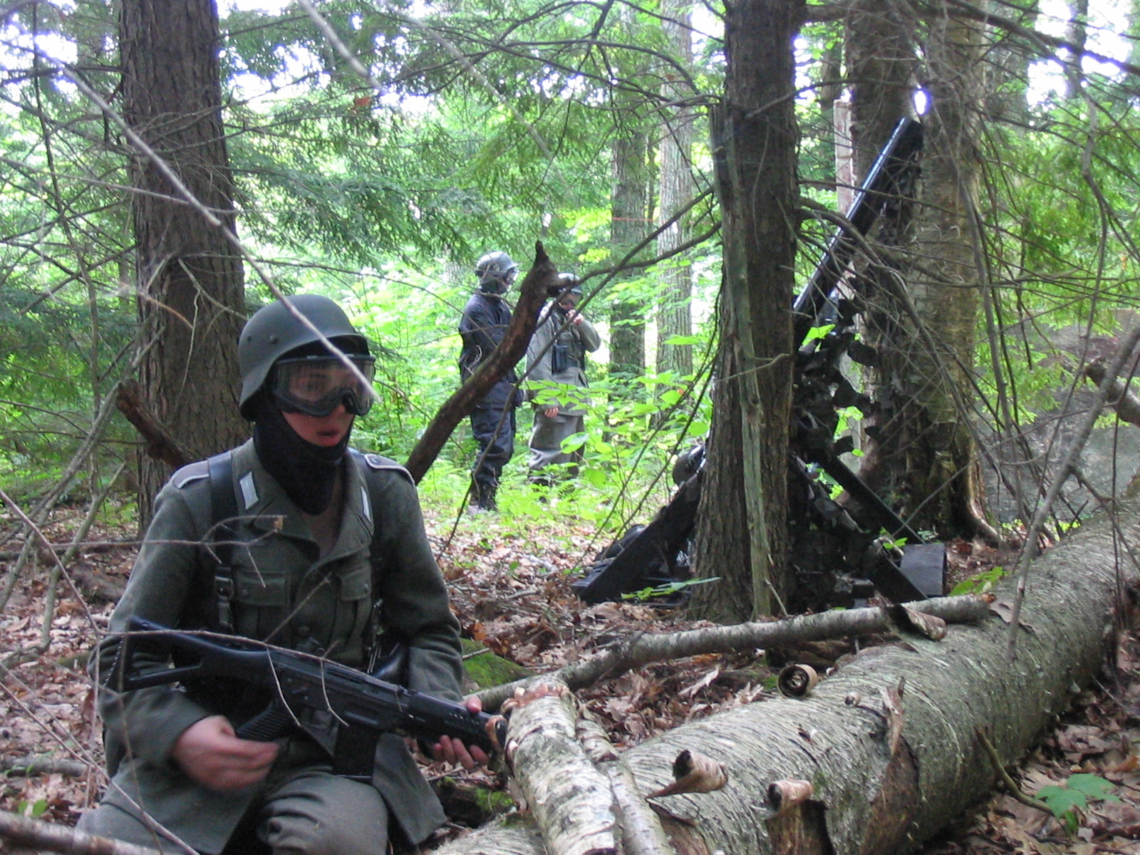 Airsoft players engaging in a normandy reenactment